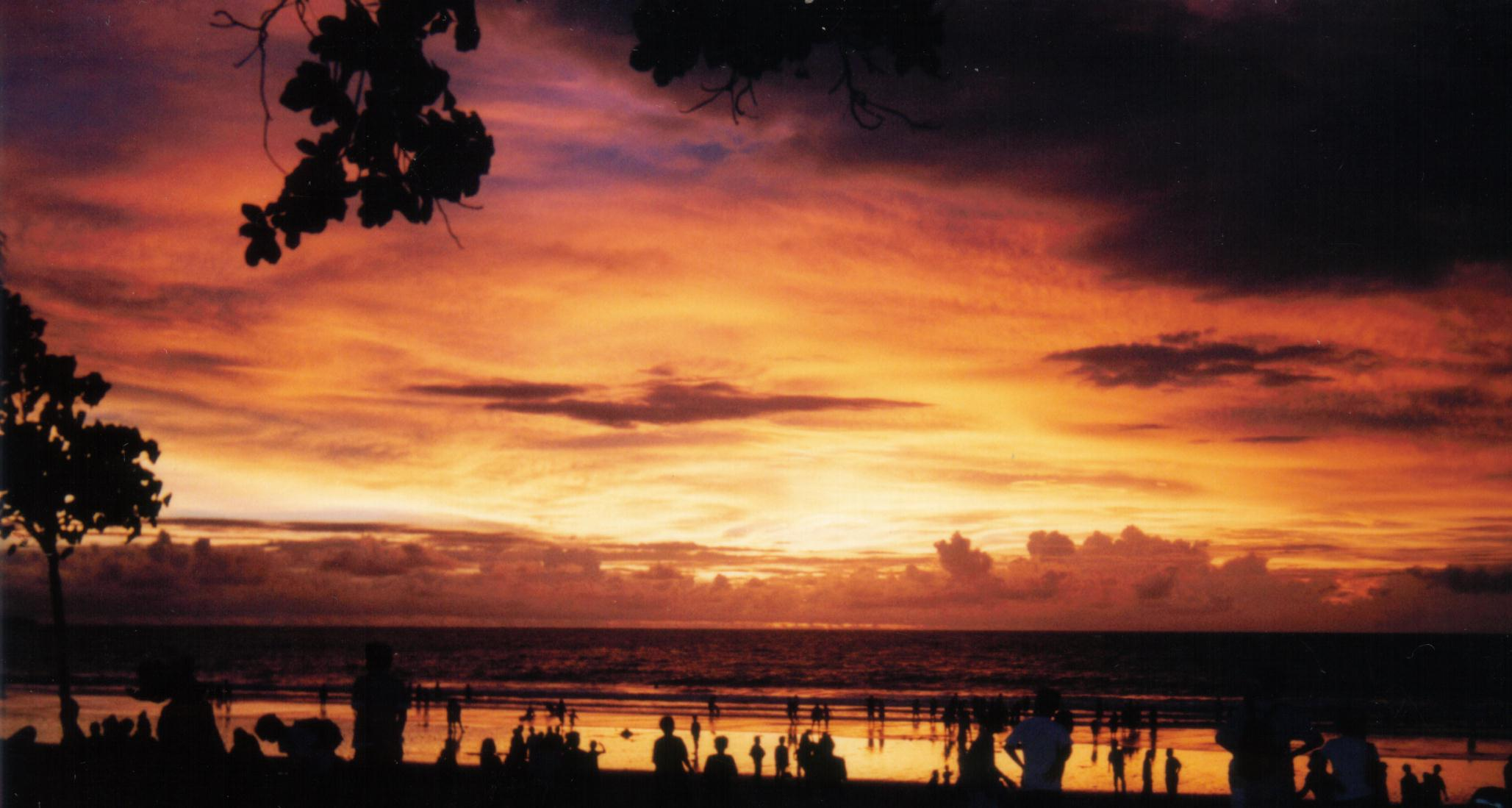 Sunset in Kuta Beach, Bali